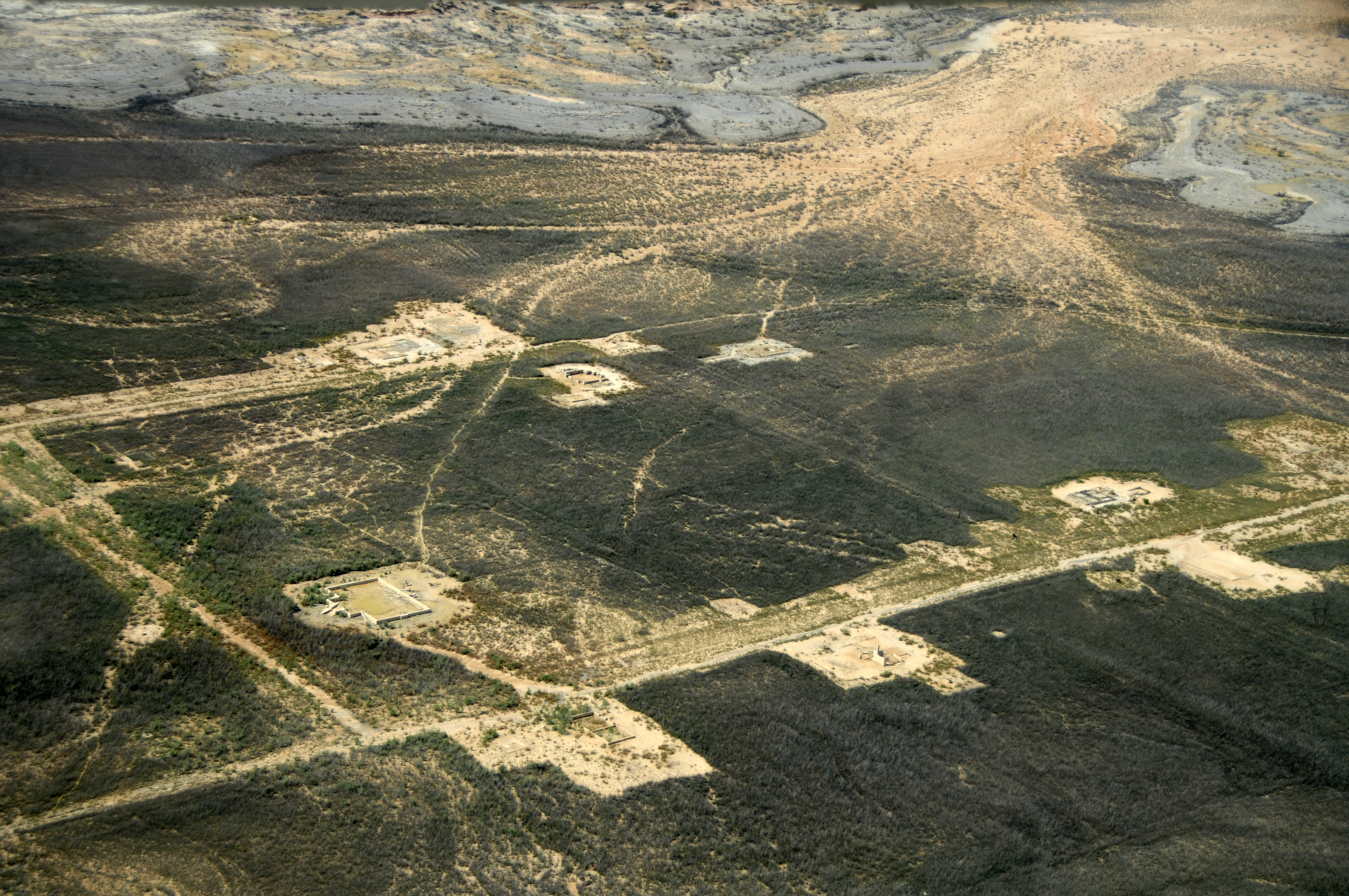 Aerial photo over Lake Mead National Recreation Area taken May 2015.(NPS photo by Chelsea Kennedy)